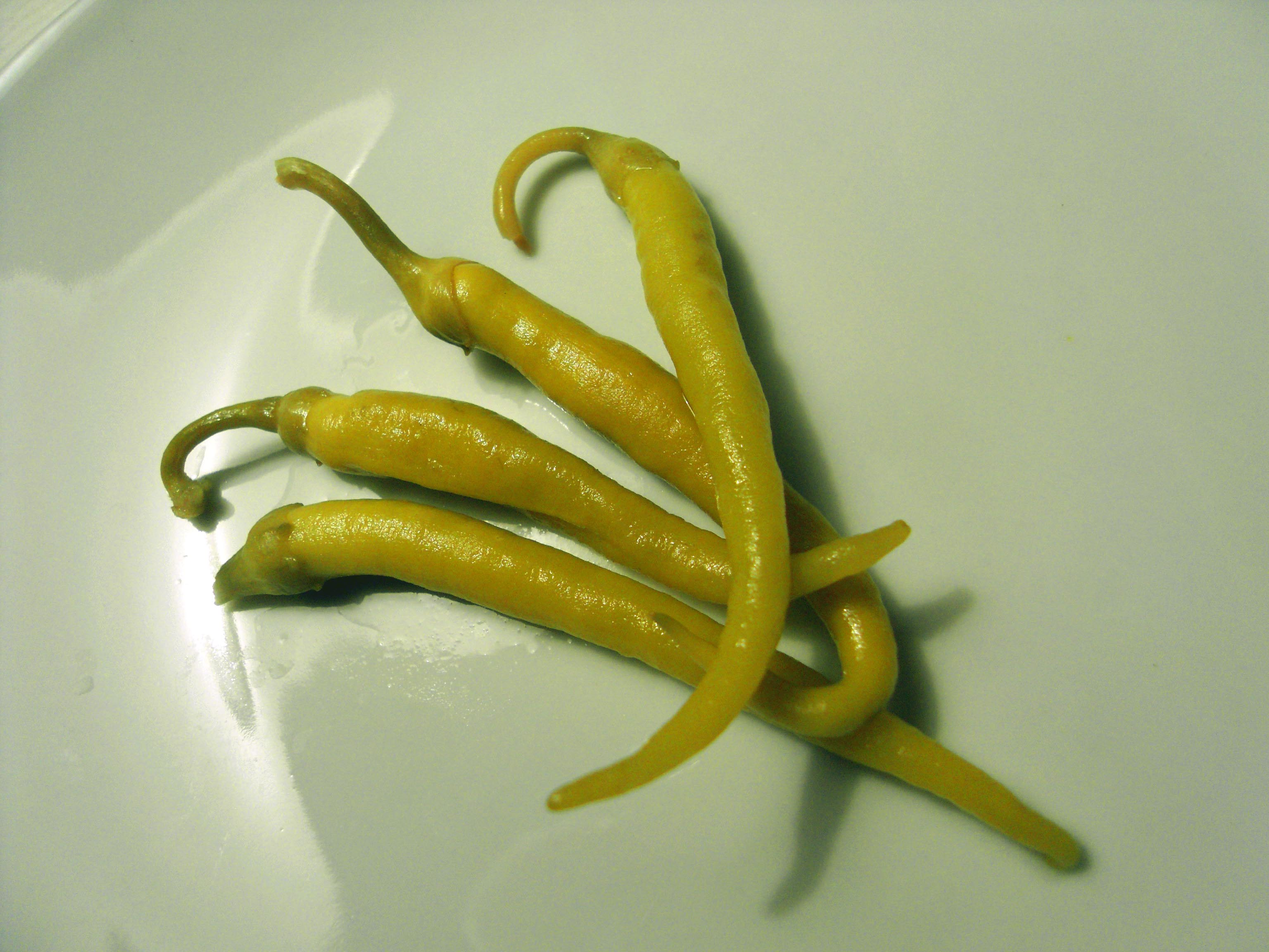 Chili peppers from Ibarra (Guipuscoa, Basque Country)